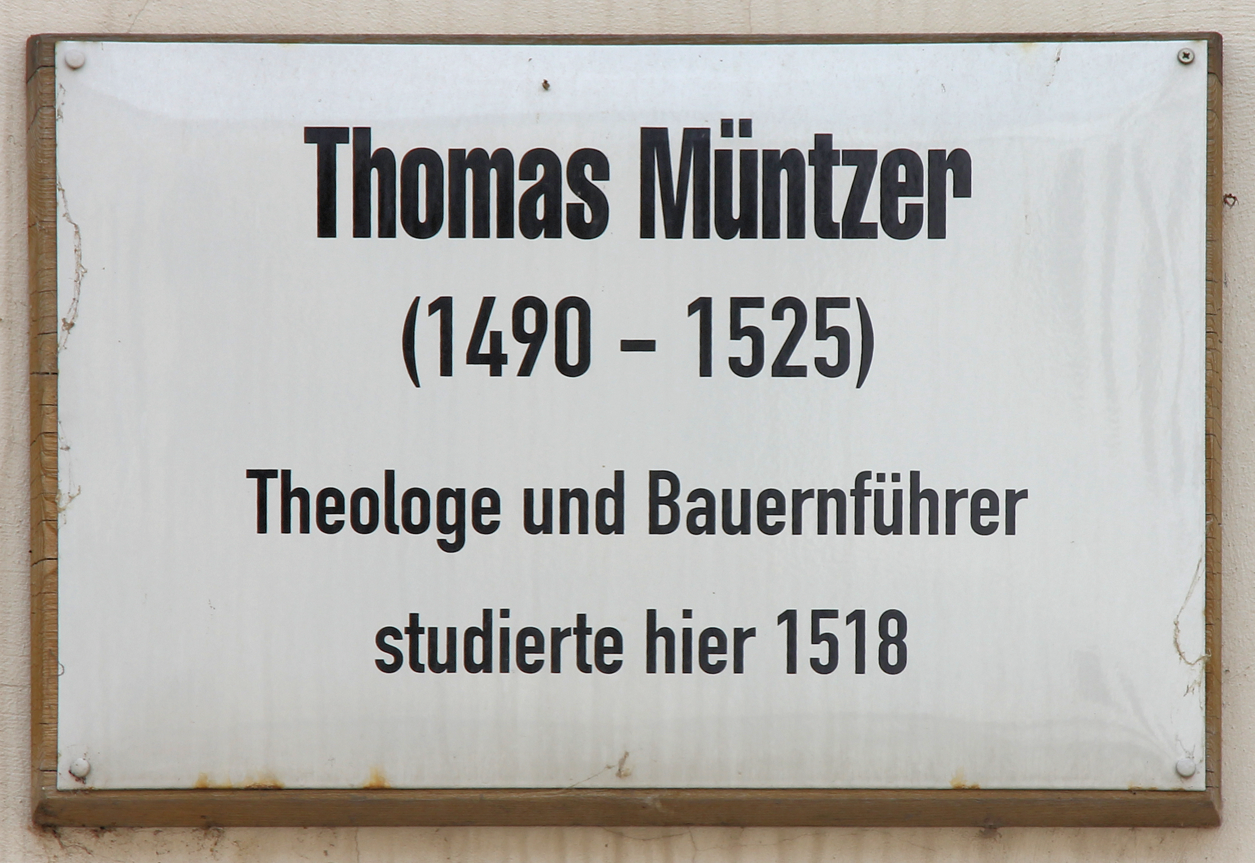 Memorial plaque, Thomas Müntzer, Schloßstraße 26, Lutherstadt Wittenberg, Germany Koordinate:51°51′59″N 12°38′28″E / 51.86639°N 12.64111°E